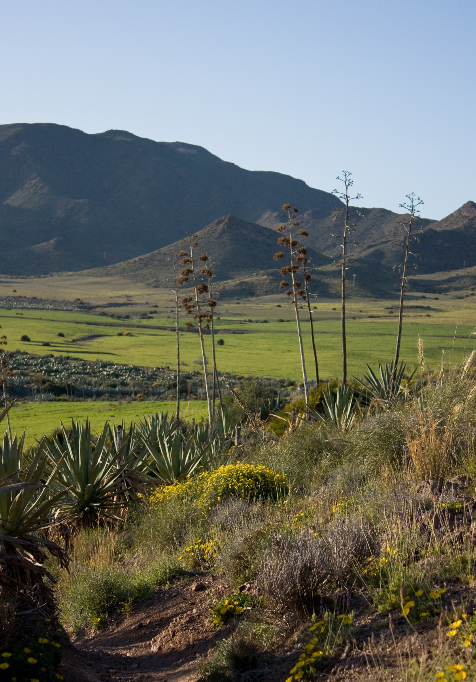 Cabo de Gata in spring